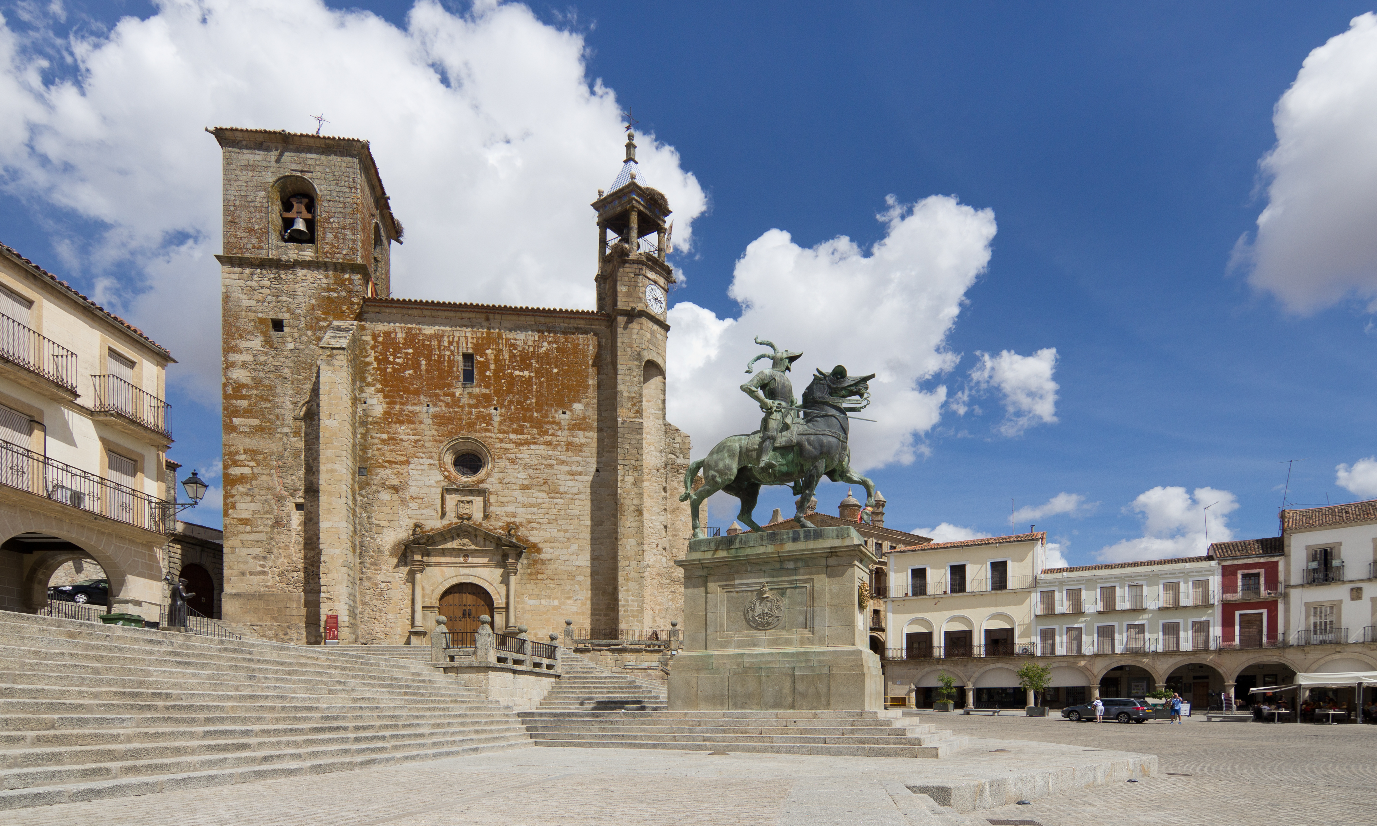 Main Square, Trujillo, Cáceres, Spain.